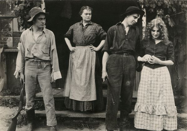 Margie (played by Florence Lawrence, far right) is loved by both Rob (Owen Moore, on the left) and Orin (Gladden James, right) in this publicity still from the 1912 Victor production After All. Margie's widowed mother (played by Victory Bateman) stands on the stoop.